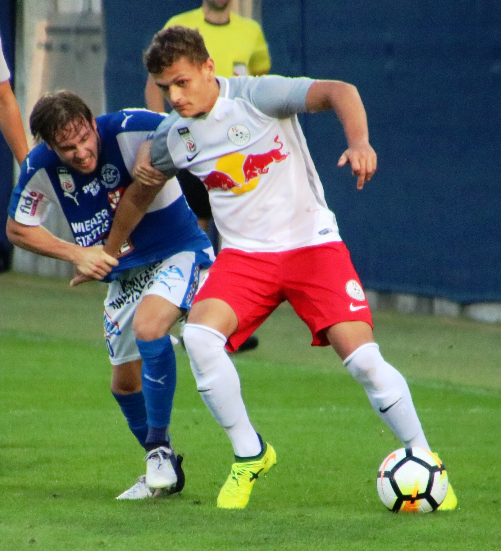 league match Austria 2nd league